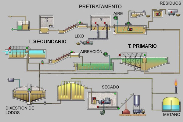 diagram of a sewage teatment plant